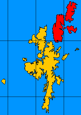 Adaption of Image:Shetland.png highlighting North Isles. Created with the Online Map Creation tool.